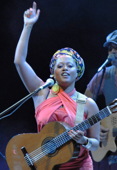 Portuguese singer Sara Tavares performing in Warszawa in September 2011.